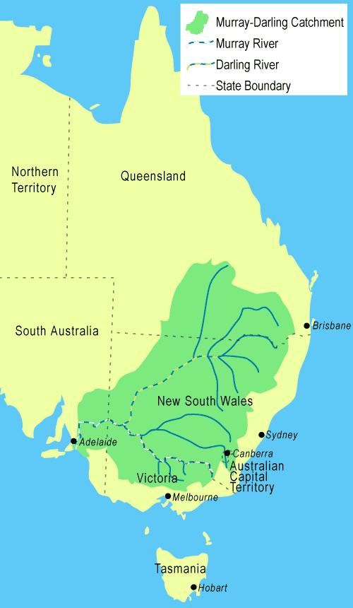 Second version of a Murray catchment map